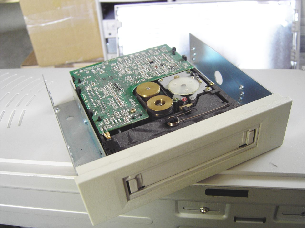 Travan TR-1 tape drive, each TR-1 tape holds 400 MB. The 3.5" drive is held by a bracket to fit in a 5.25" drive bay.